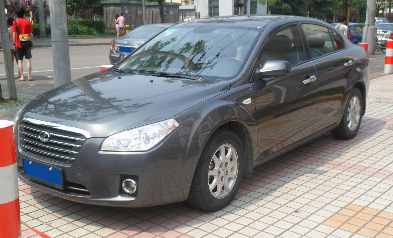 Besturn B50 photographed in Shanghai, China.